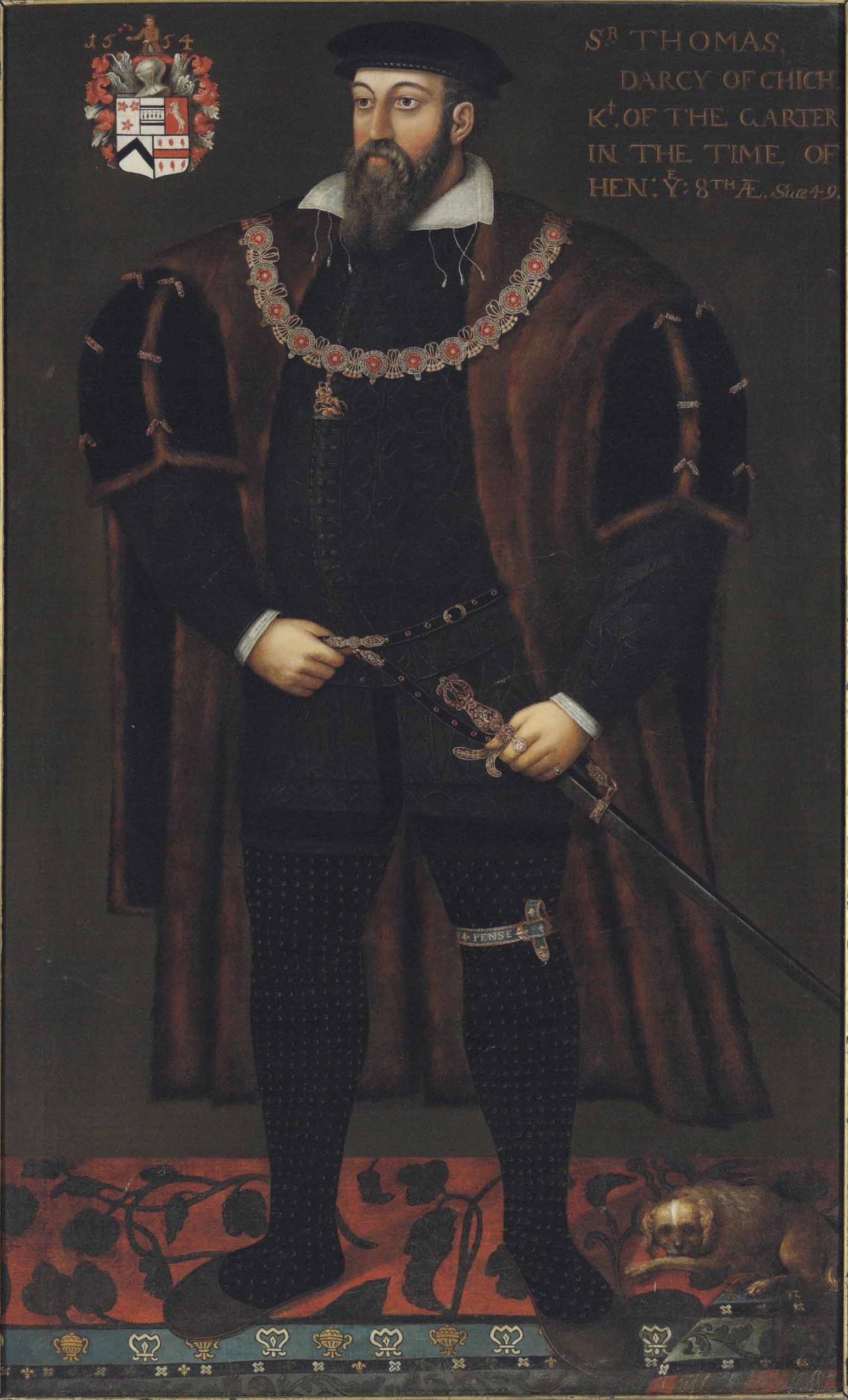 Thomas Darcy, 1st Baron Darcy of Chiche, K.G. (1506-1558) oil on canvas 201.8 x 124.4 cm inscribed t.r.: 'S.R. THOMAS. / DARCY OF CHICH. / Kt. OF THE GARTER / IN THE TIME OF / HEN: EY: 8TH Æ Suæ. 49 1554